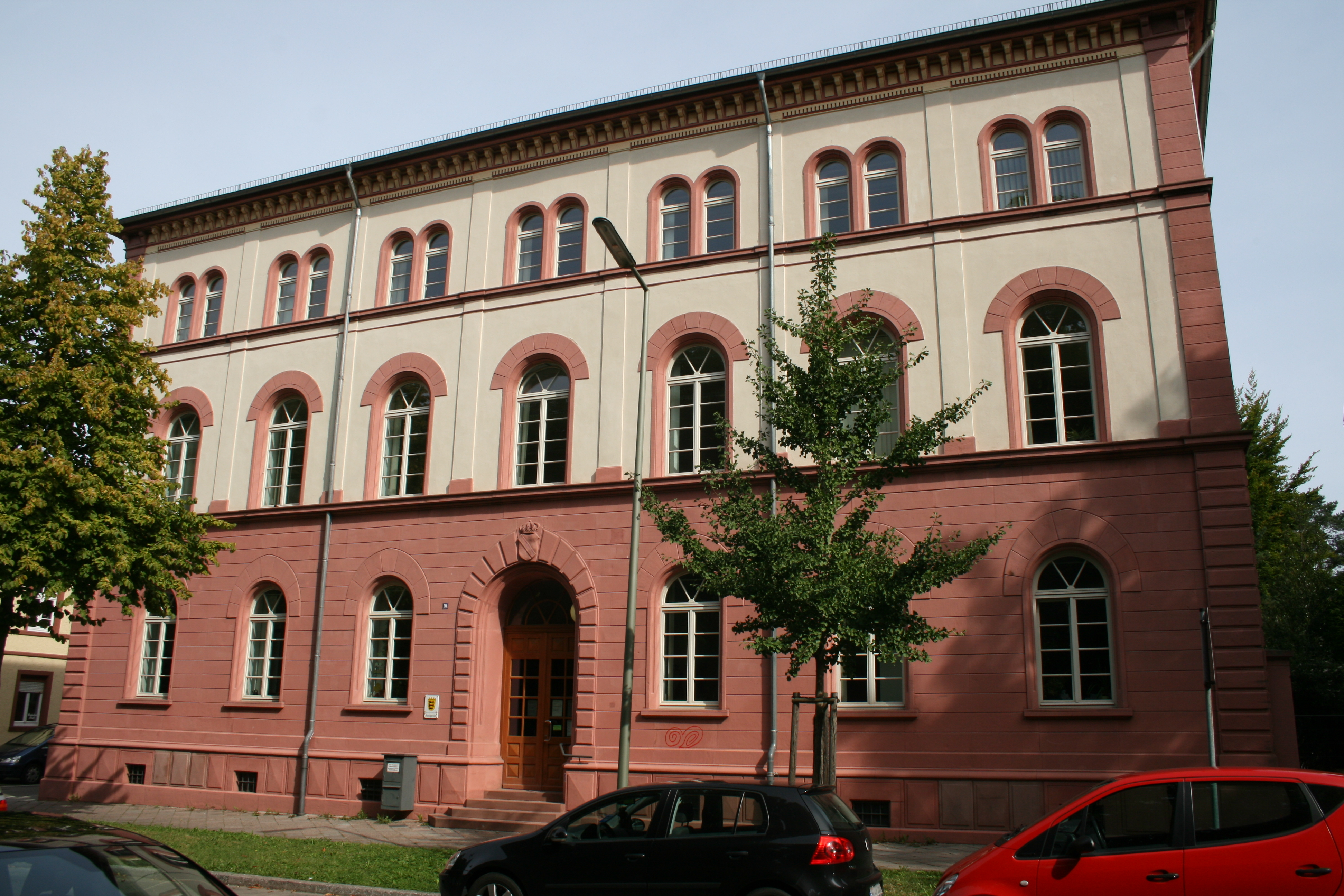 Building of the Amtsgericht Karlsruhe-Durlach, the Local Court of Karlsruhe-Durlach